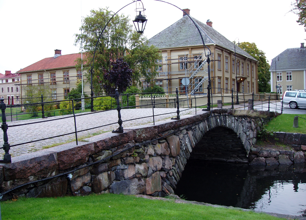 Bridge Mellanbron and mansion Vågmästaregården in the "Plantaget" area of Åmål.